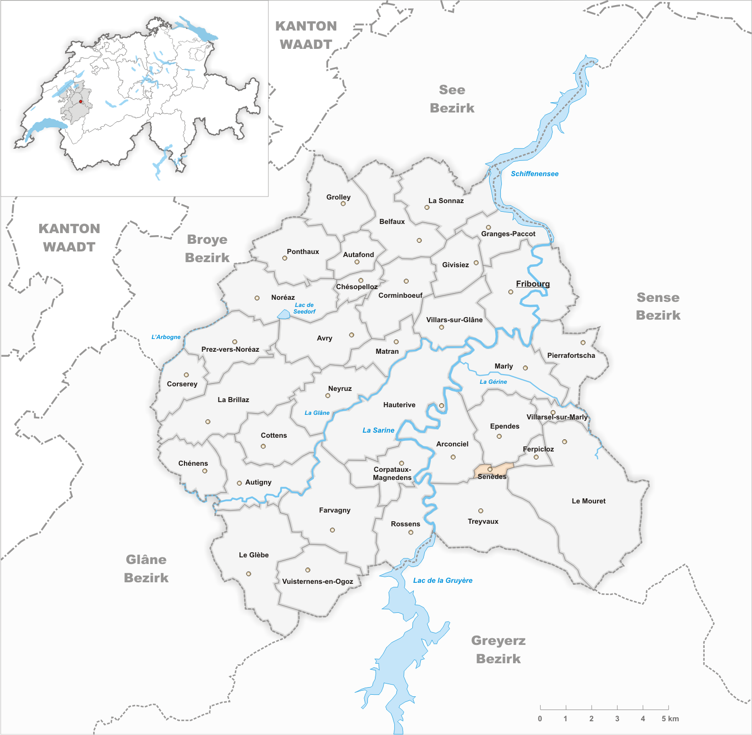 Municipality Senèdes